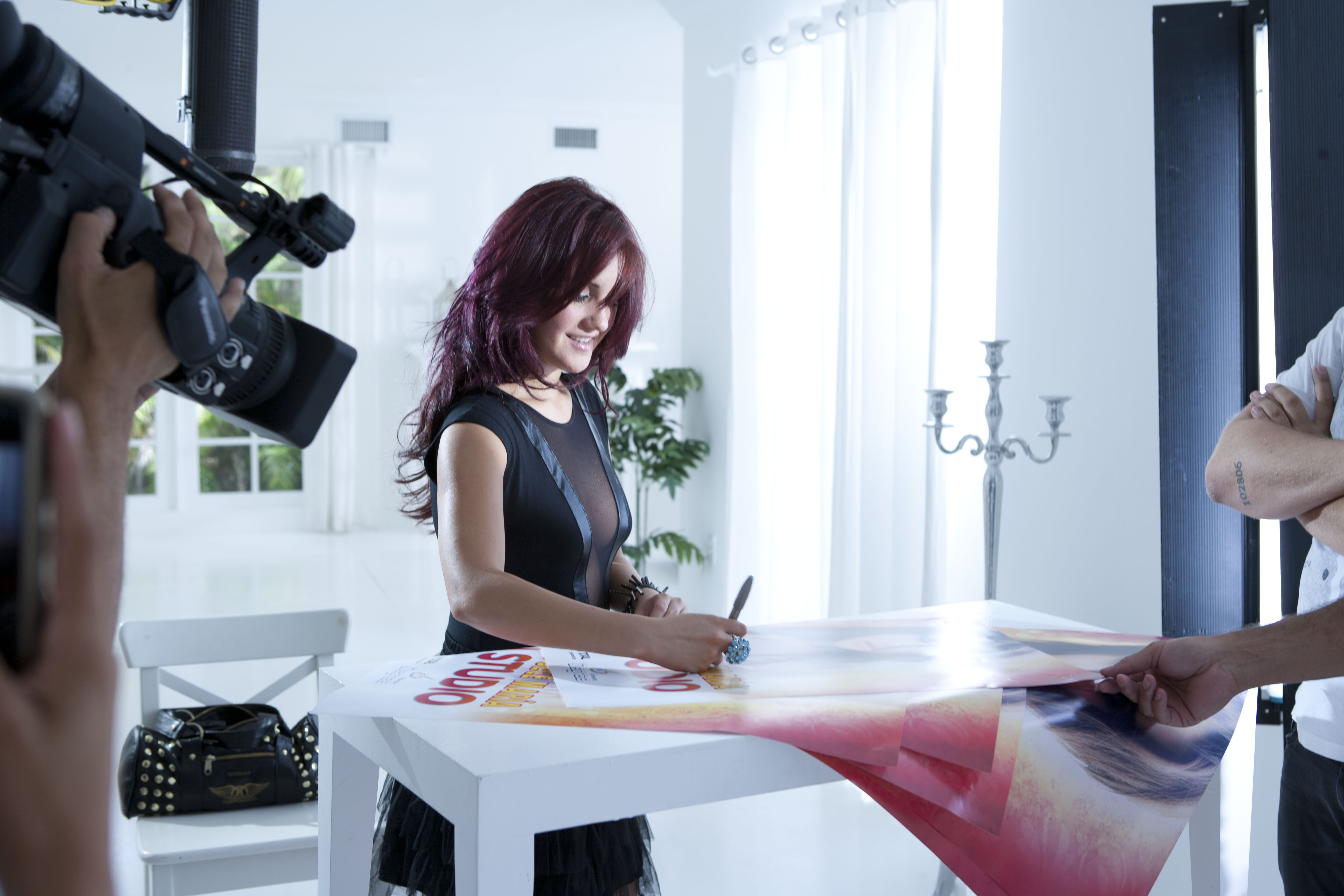 Dulce Maria on set.